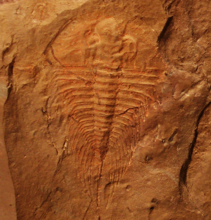 Fossil of Olenellus, a trilobite